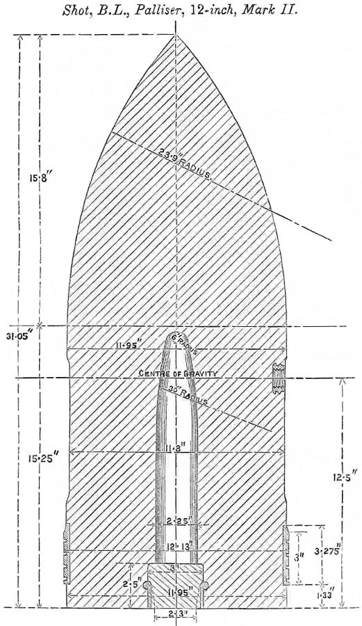 Diagram of Mk II Palliser shot for British BL 12 inch naval gun Mk I - VII.